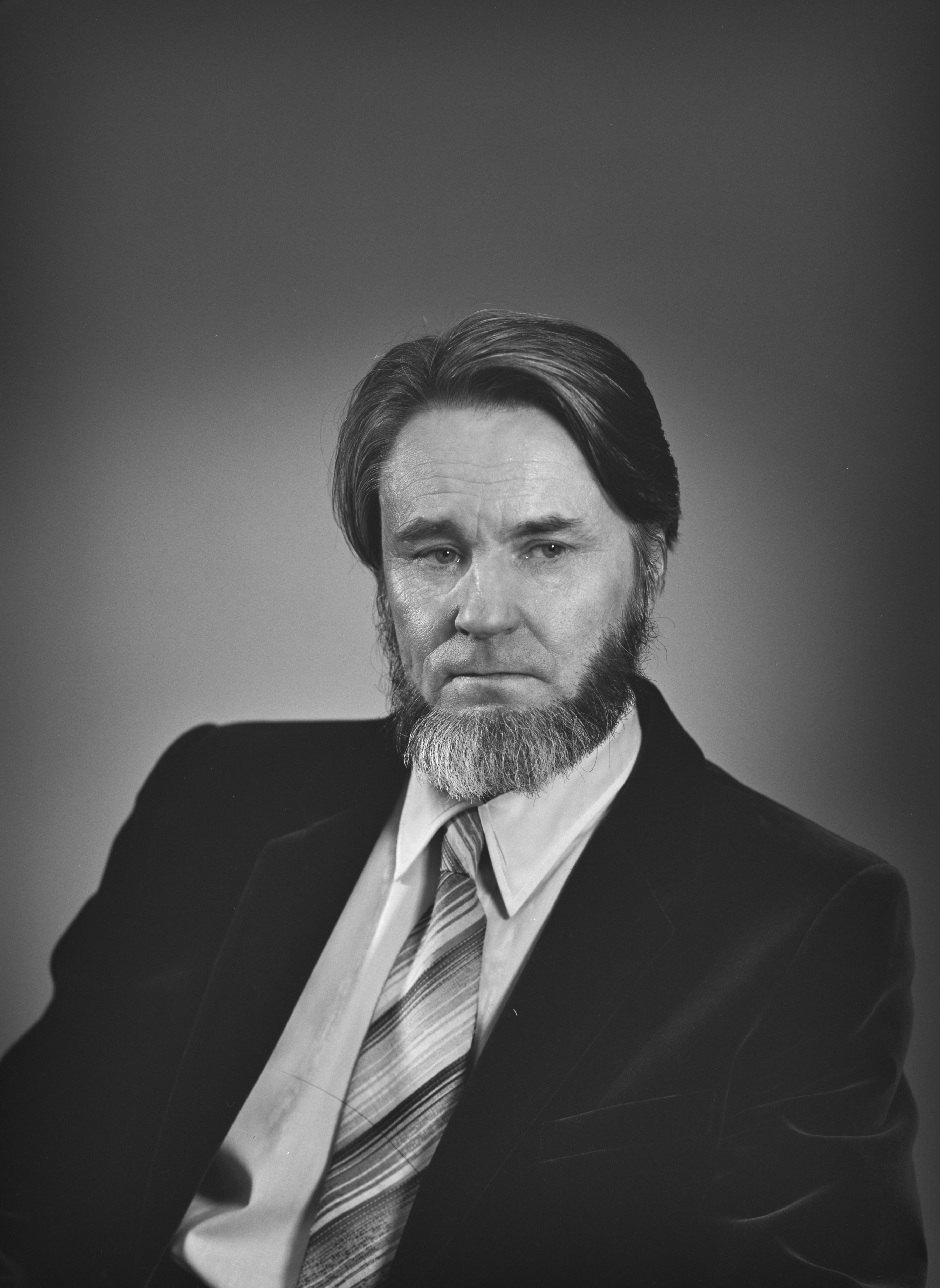 Photograph of the Finnish physicist and psychologist Yrjö Ahmavaara (1929–2015).